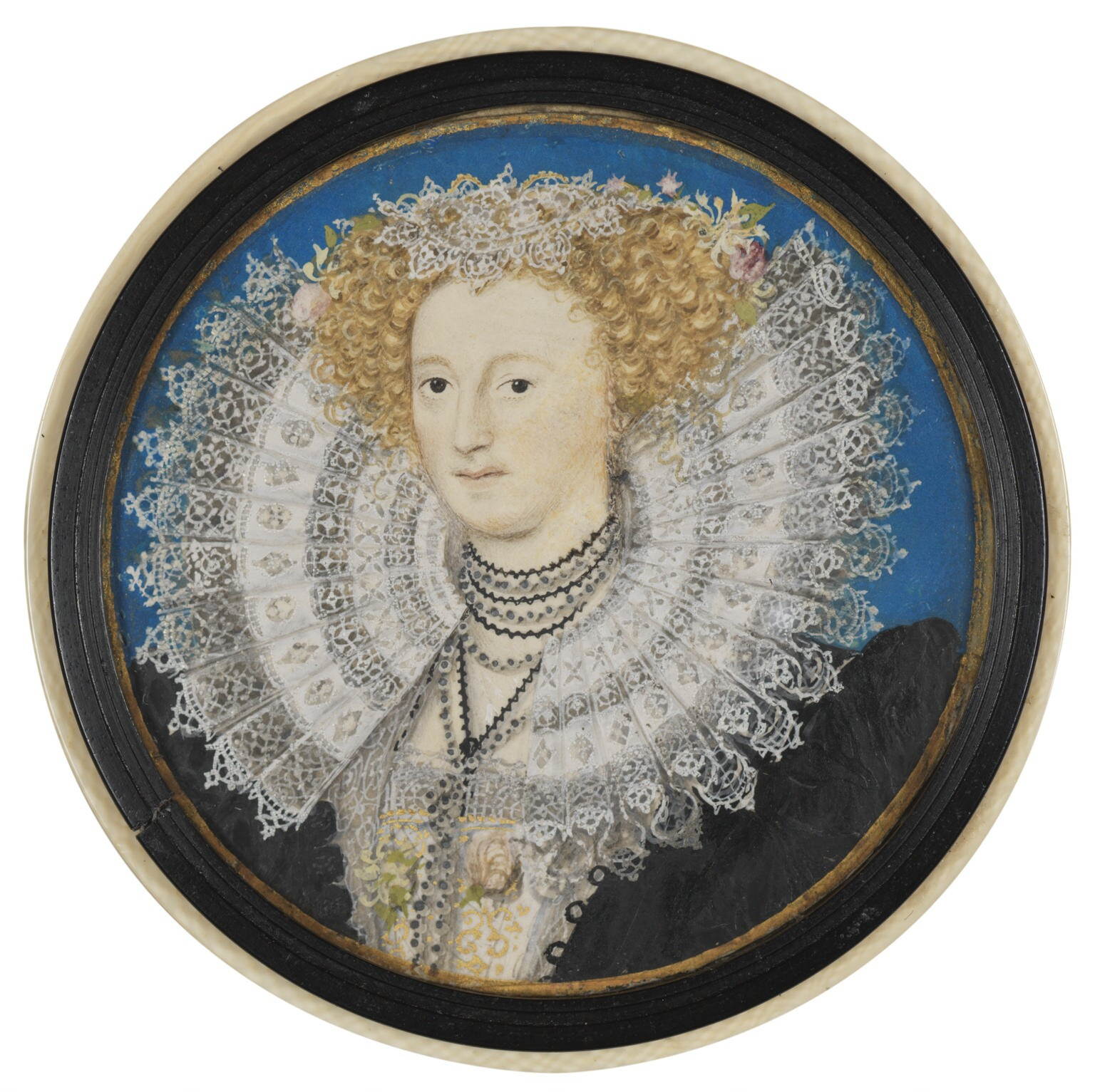 Portrait of Mary Sidney Herbert (1561–1621) Gallery: National Portrait Gallery, London